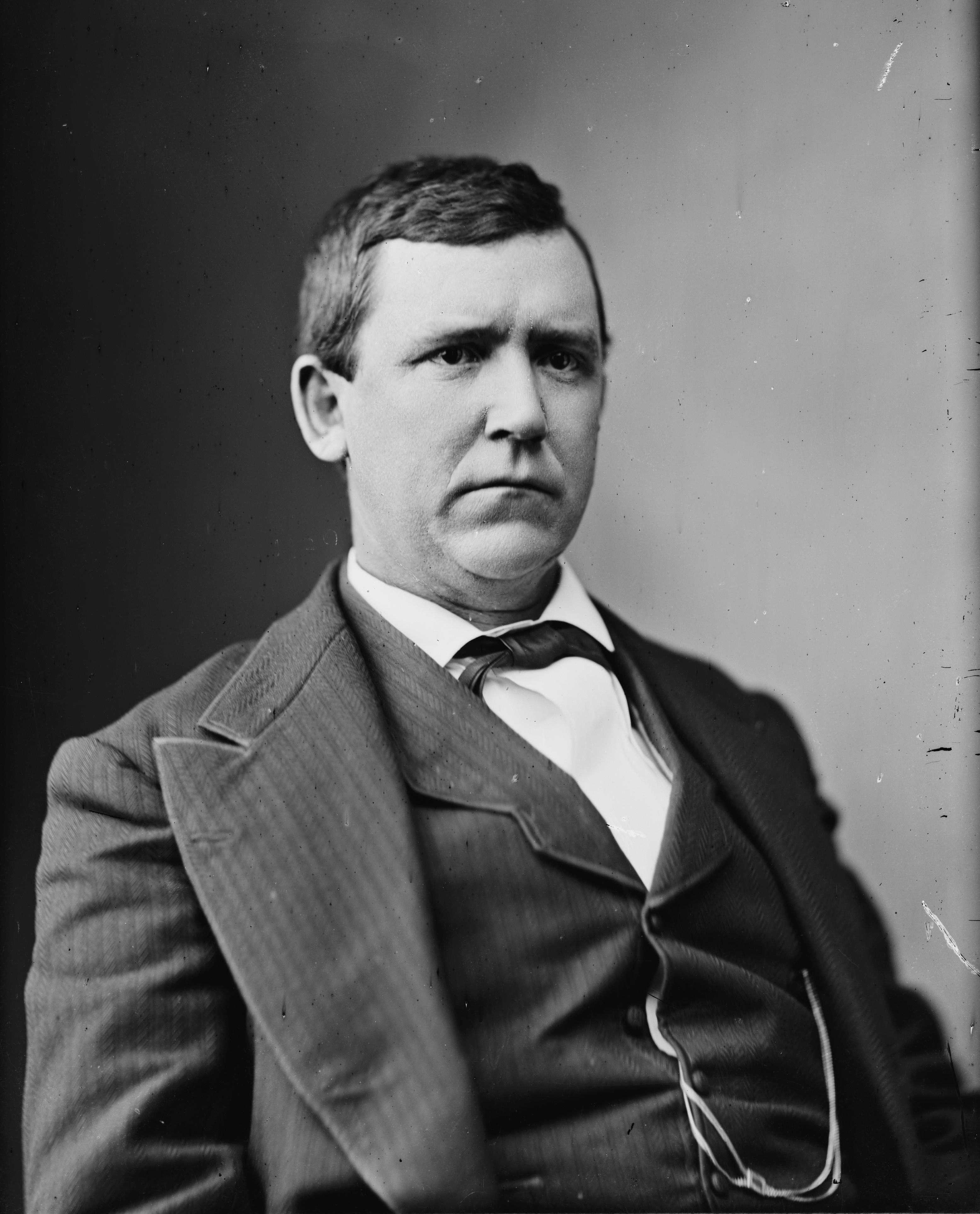 Augustus Hill Garland. Library of Congress description: "Garland, Hon. A.H. Attny General"